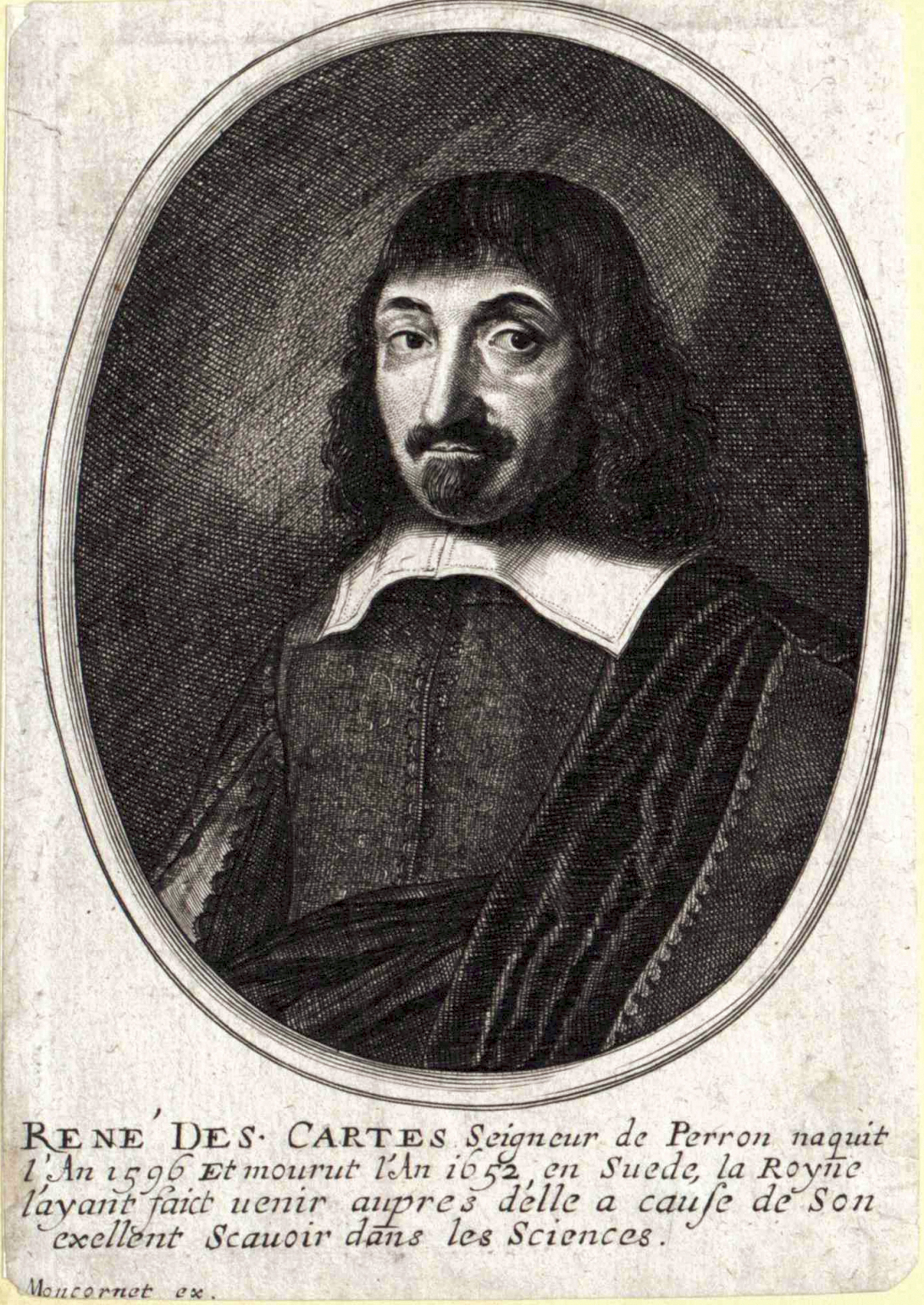 René Descartes.